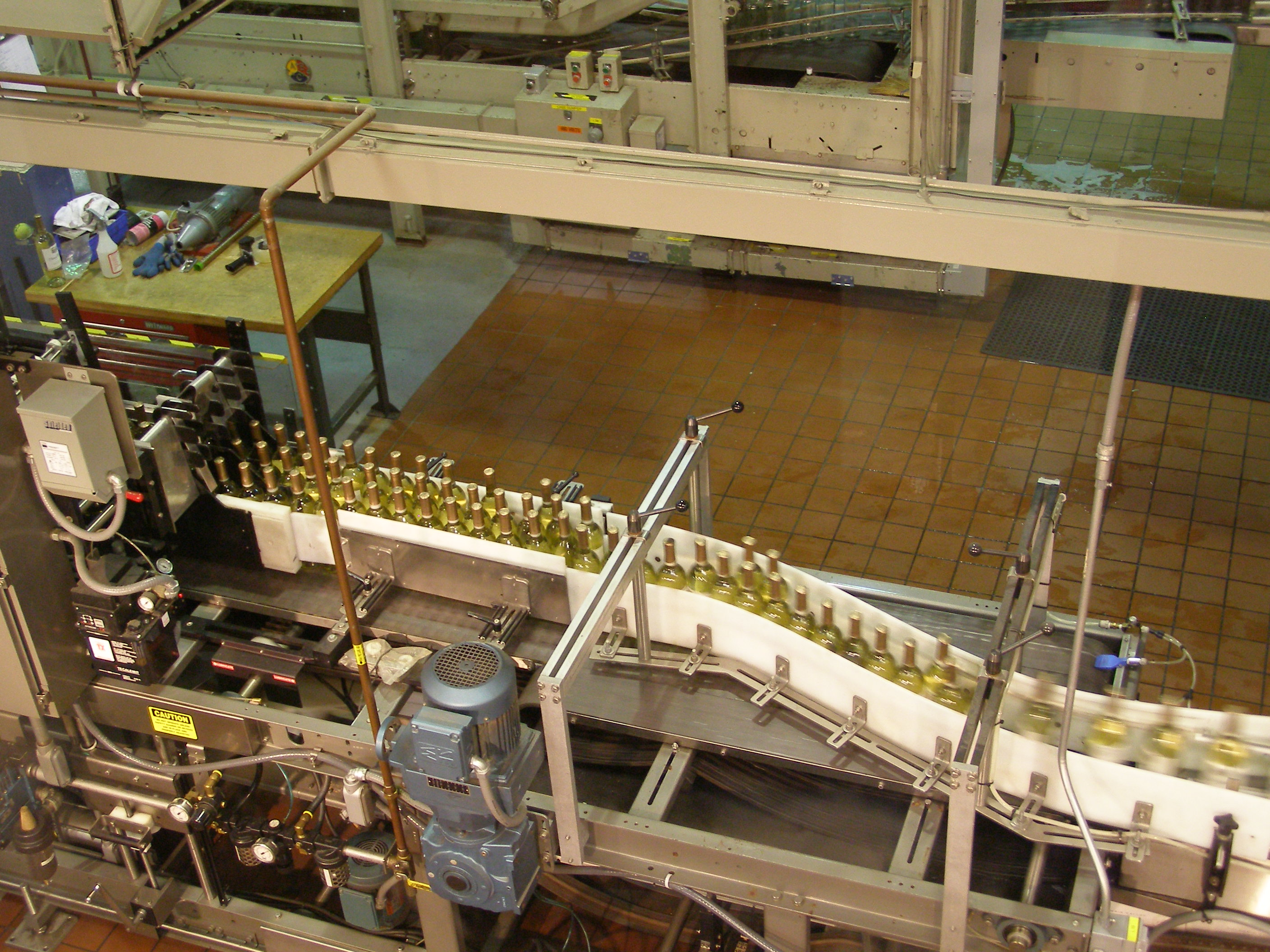 Wine bottling production line at Chateau Ste Michelle in Washington state. Bottling Chardonnay